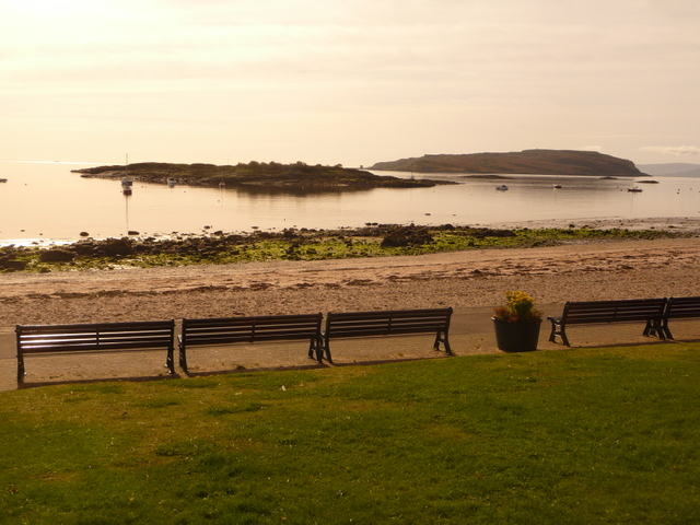 Millport: benches with a view of The Eileans Looking out from the prom towards The Eileans, two islands in Millport Bay.